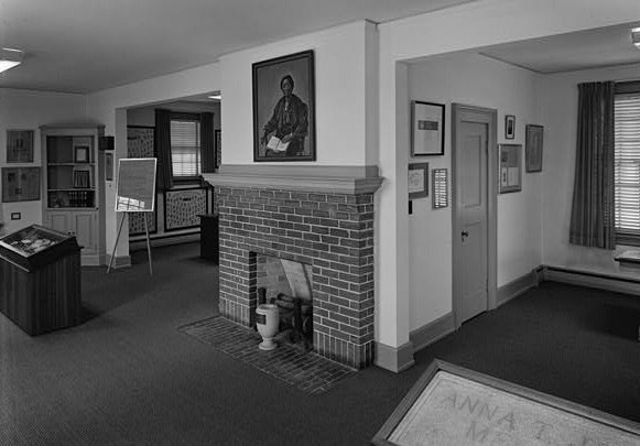 Virginia Randolph Cottage (Henrico County, Virginia) (cropped)